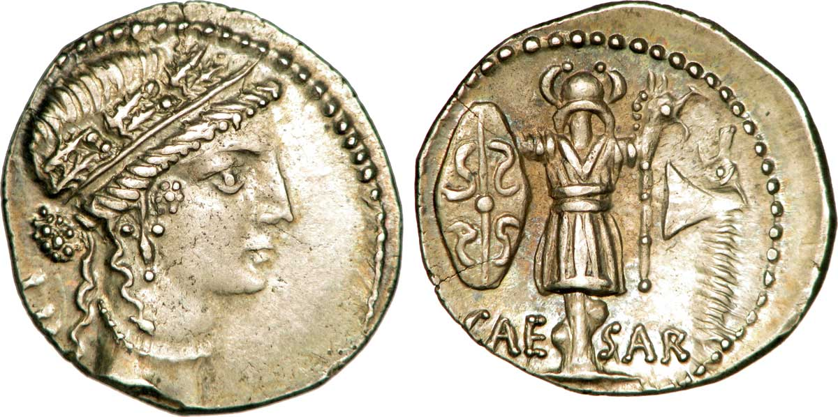 Denier commémorant les conquêtes gauloises de Jules César Date : c. 48 AC Description revers : Trophée gaulois composé d'un grand bouclier ovale, d'un casque, d'une cuirasse, d'un carnyx et d'une hache à sacrifice surmontée d'une tête d'animal . Description avers : Tête de Vénus ou de (Clementia) la Clémence laurée et diadémée à droite avec boucle d'oreille et collier .